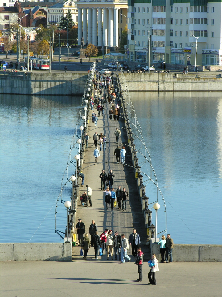 Čeboksary, Russia - Bridge on artificial lake